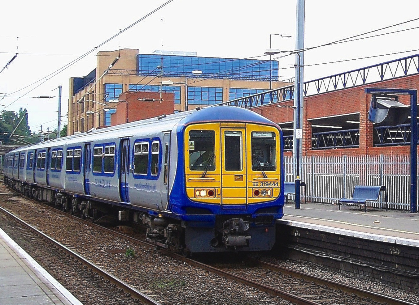 A Thameslink Class 319/4 EMU train No. 319444 arrives at St Albans City Station